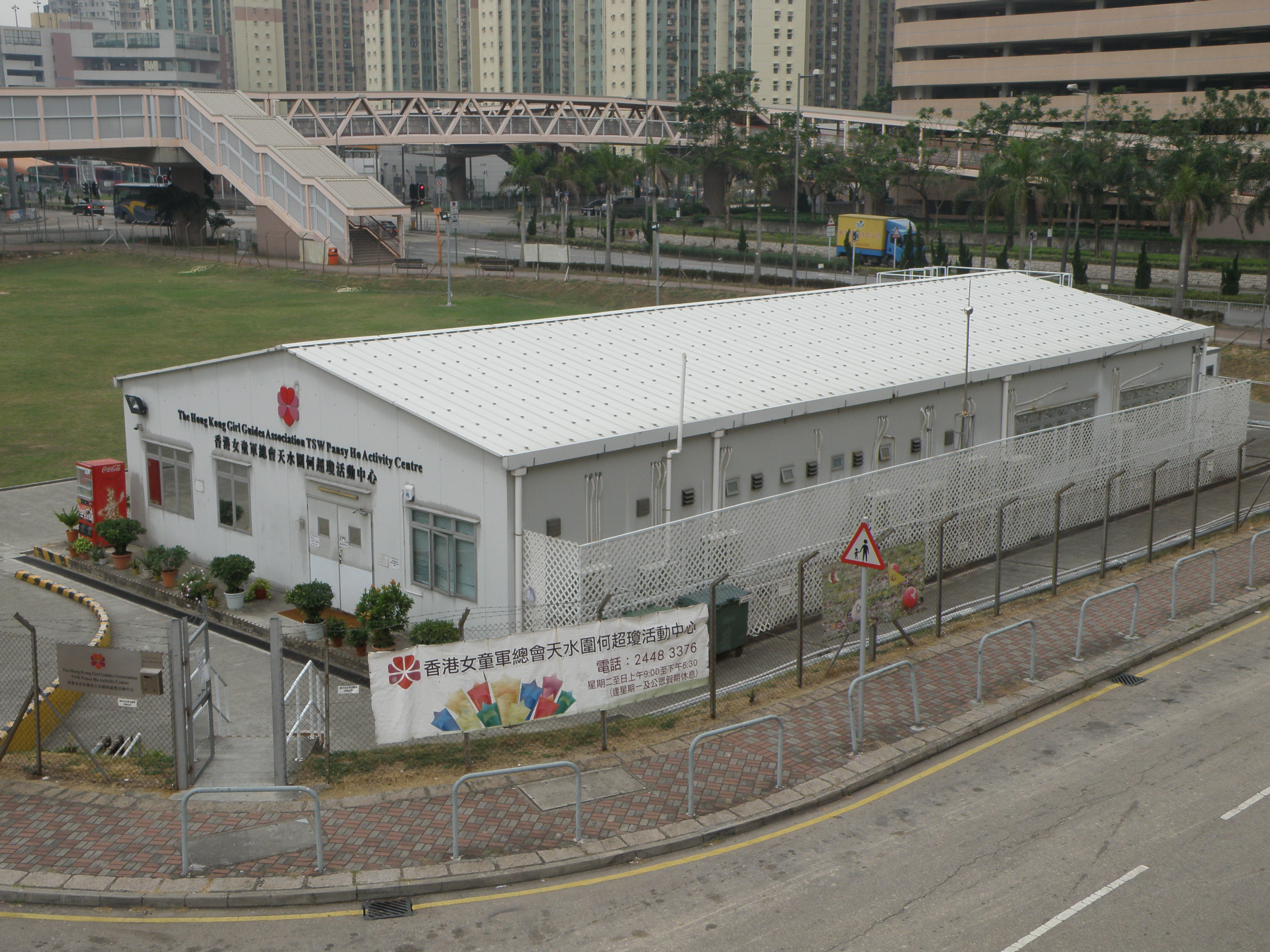 The Hong Kong Girl Guides Association Pansy Ho Activity Centre in Tin Shui Wai, Hong Kong.